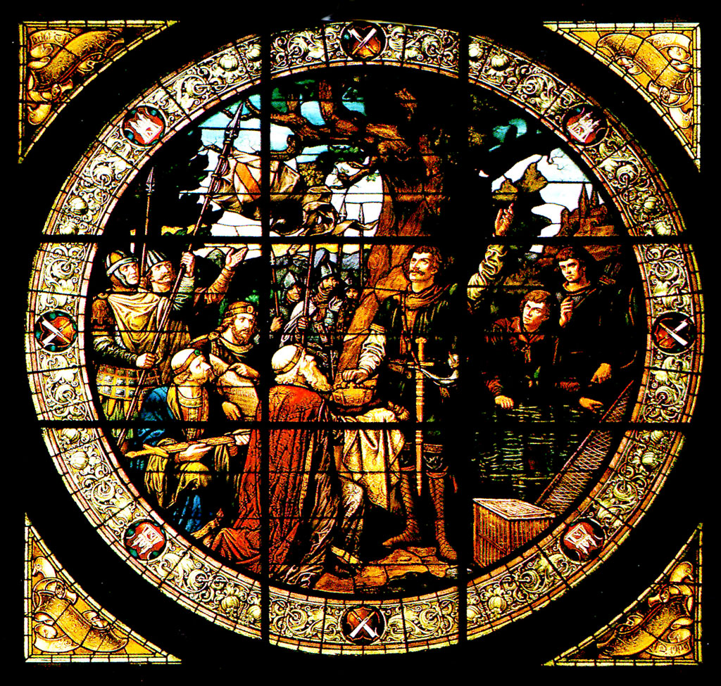 Window in the Quedlinburg town hall